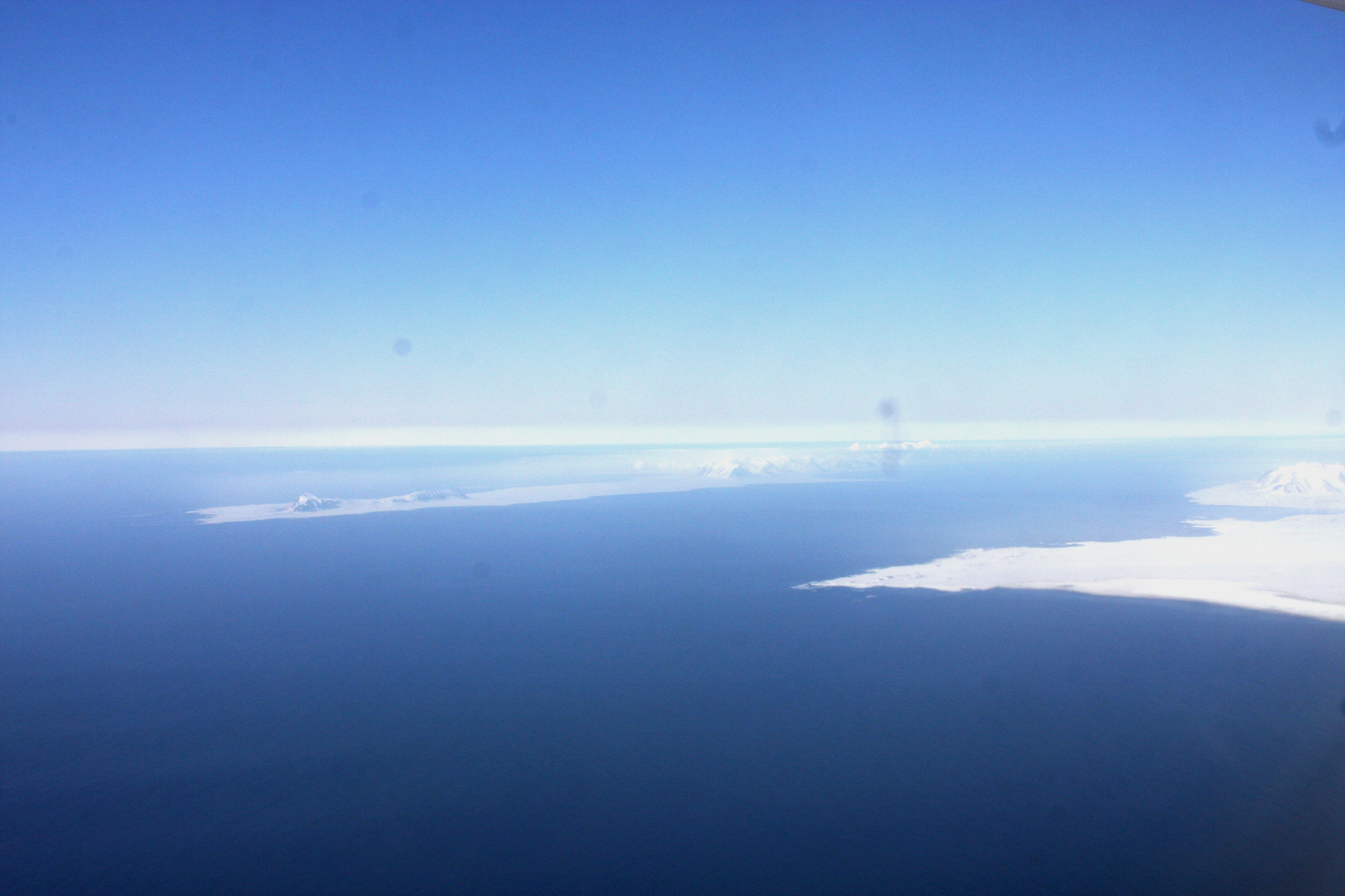 Forlandssundet (The Forland Strait), Oscar II Land, Spitsbergen. Seen from avove Isfjorden (Ice Fjord). Late April, 2011.